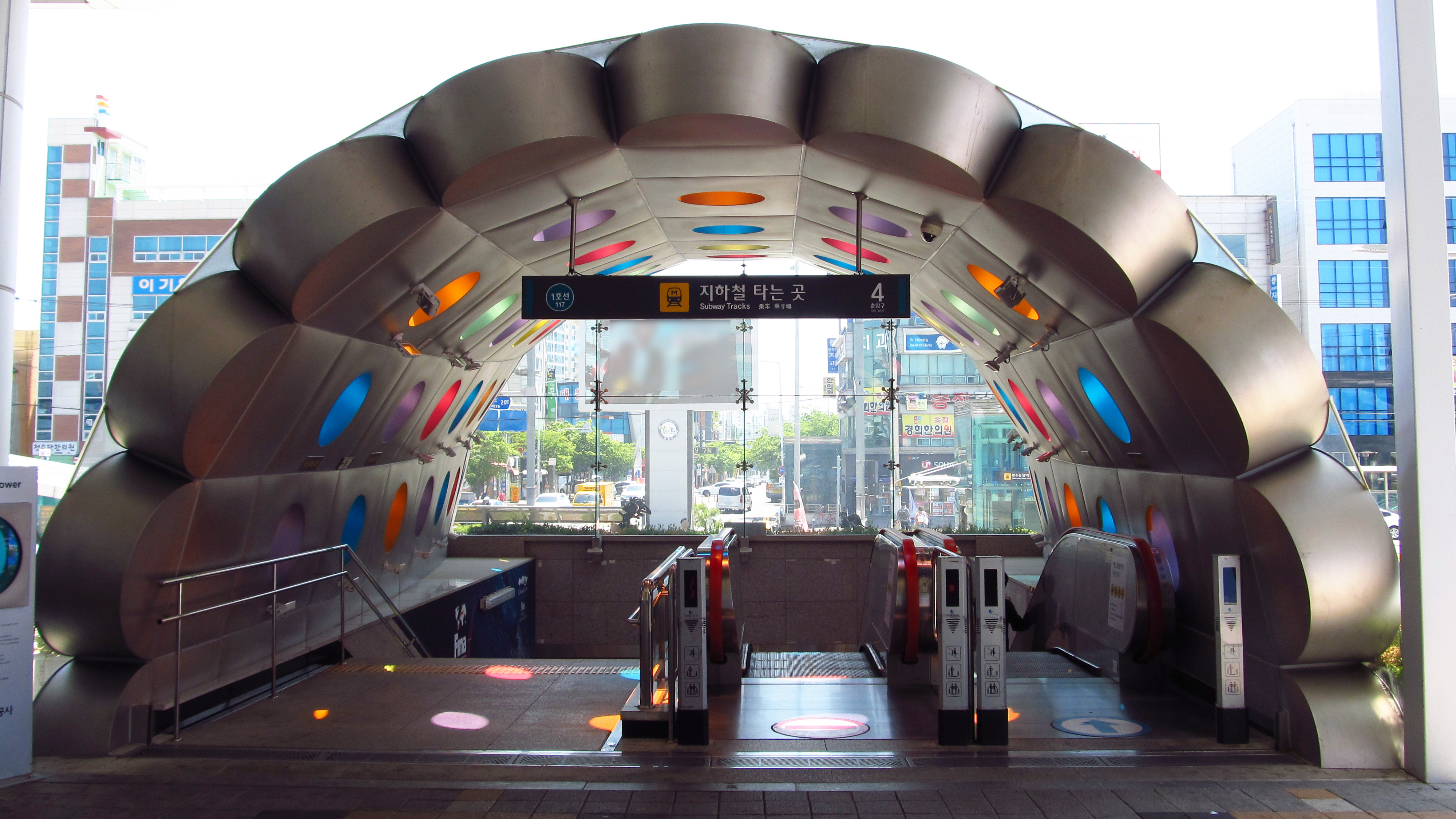 The no.4 entrance to Gwangju Songjeong Station on Gwangju Metro Line 1 in Gwangsan-gu, Gwangju, Republic of Korea(South Korea)